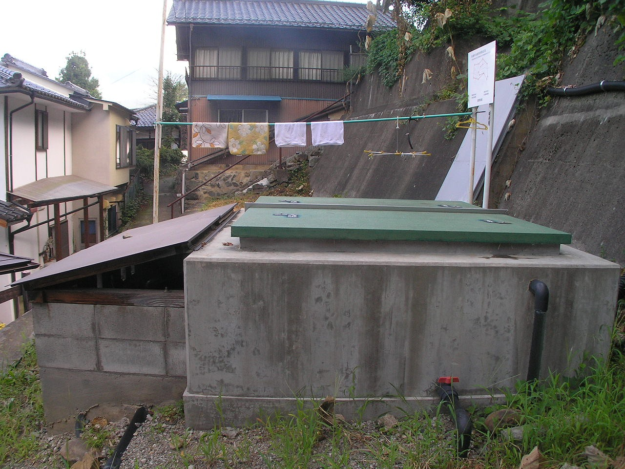 kutsukake-onsen-gensen